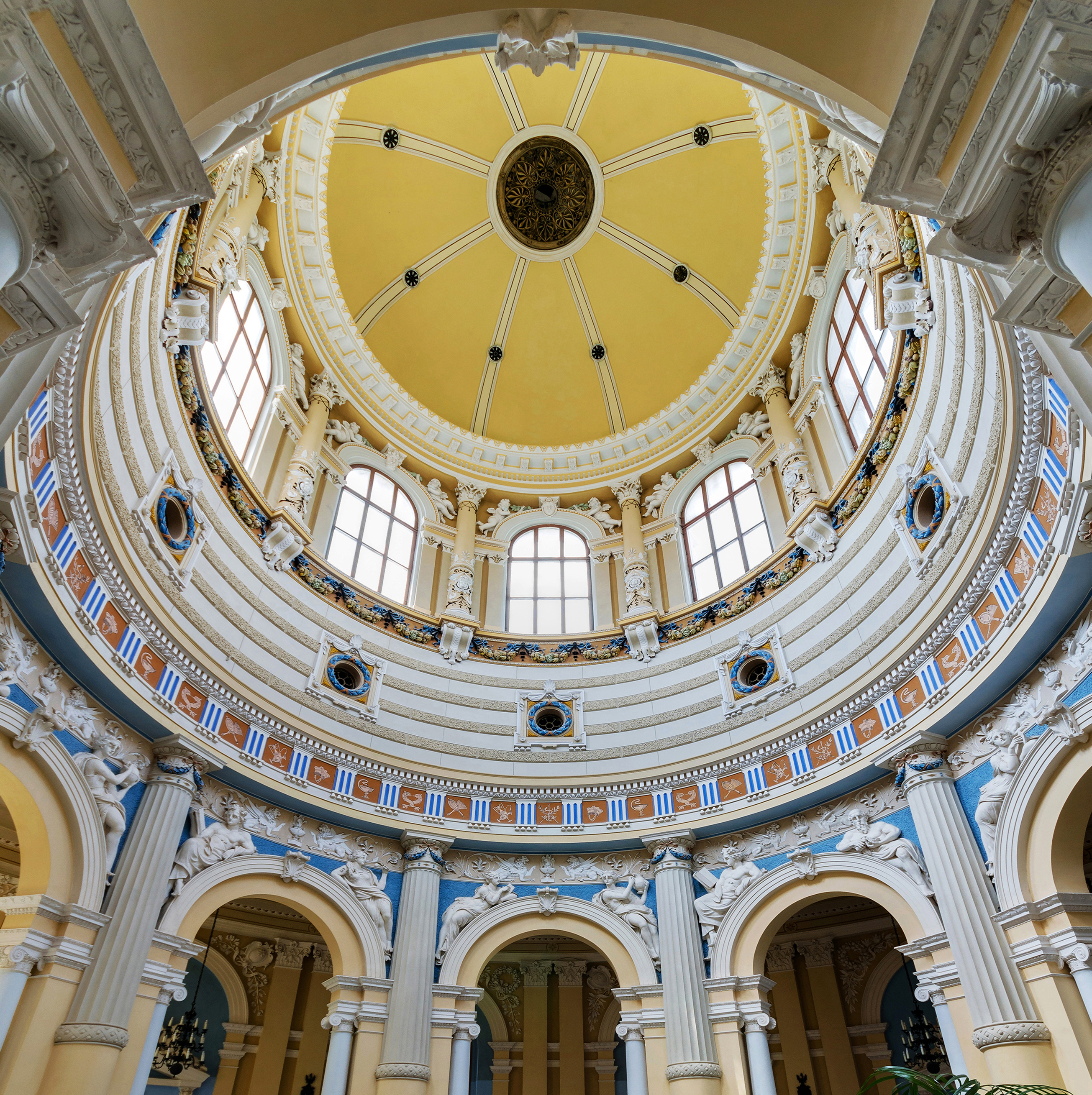 Wojciech Sanatorium in Lądek-Zdrój Ta fotografia przedstawia zabytek wpisany do rejestru zabytków pod numerem ID 592813